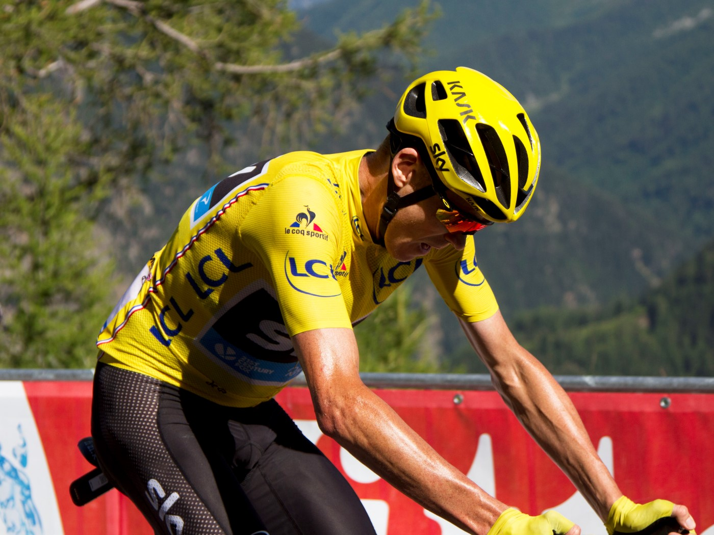 231 froome